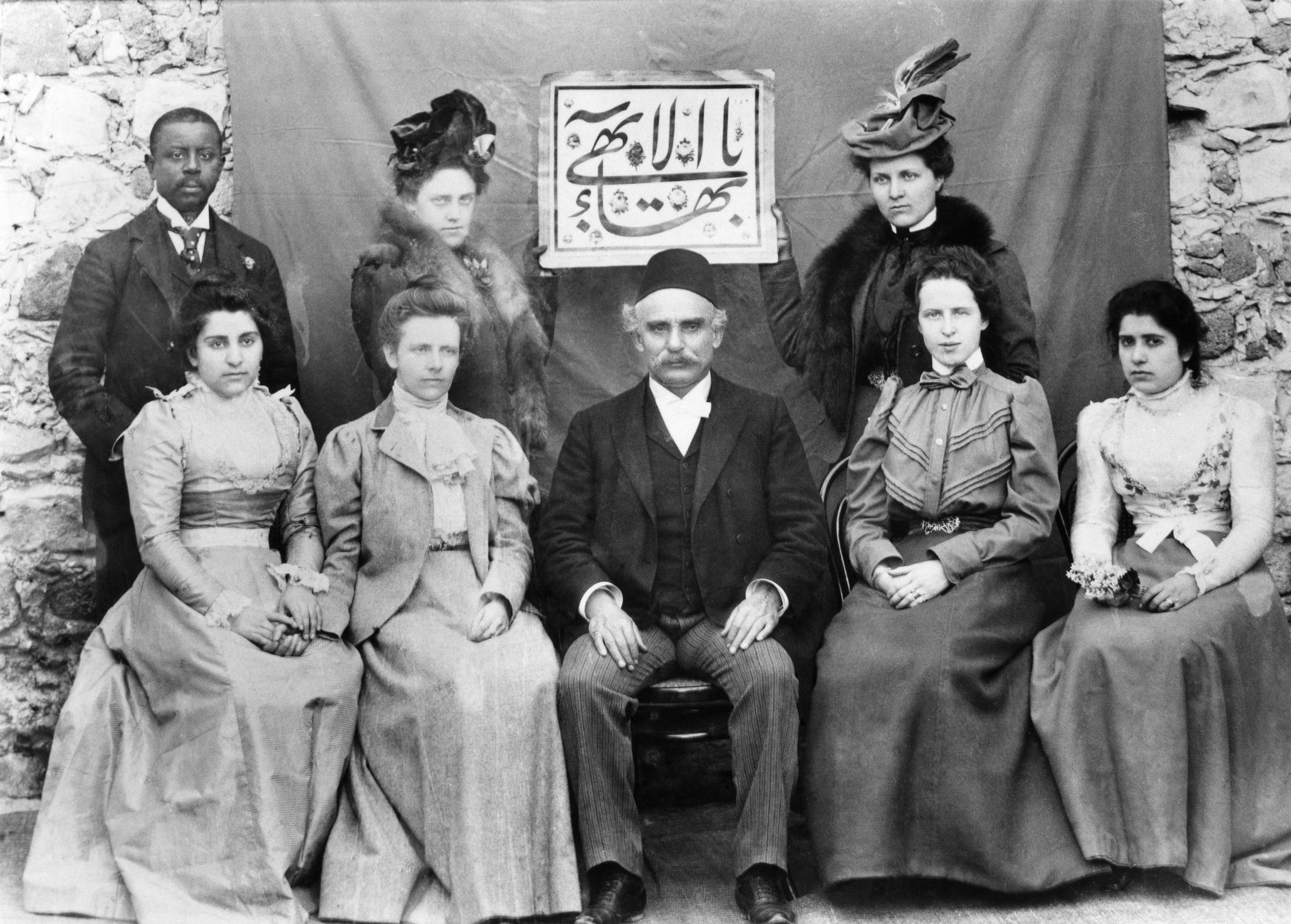 This historical photo of members of the group that made the first Western Pilgrimage in 1898: Back row, L to R: Robert Turner (first Afro-American Baha'i, Anne Apperson (niece of Phoebe Apperson Hearst), Julia Pearson (Mrs. Hearst’s assistant and tutor for Agnes Lane, Mrs. Hearst's young cousin, not shown). Front row, L-R: Daughter of Ibrahim Khayru'llah; Mrs. Marion Khayru'llah; Ibrahim Khayru'llah (early teacher of the Baha'i Faith in the U.S.); Lua Getsinger (Banner of the Cause); second daughter of Ibrahim Khayru'llah from a previous marriage.